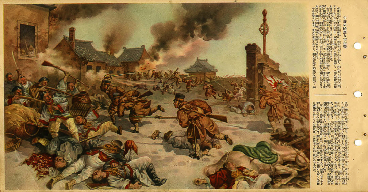 Title = "Battle of Yingkou 1895." Print depicts the last land battle of the Sino-Japanese war fought outside the foreign port of Yingkou, Manchura (then known as Niuzhuang).